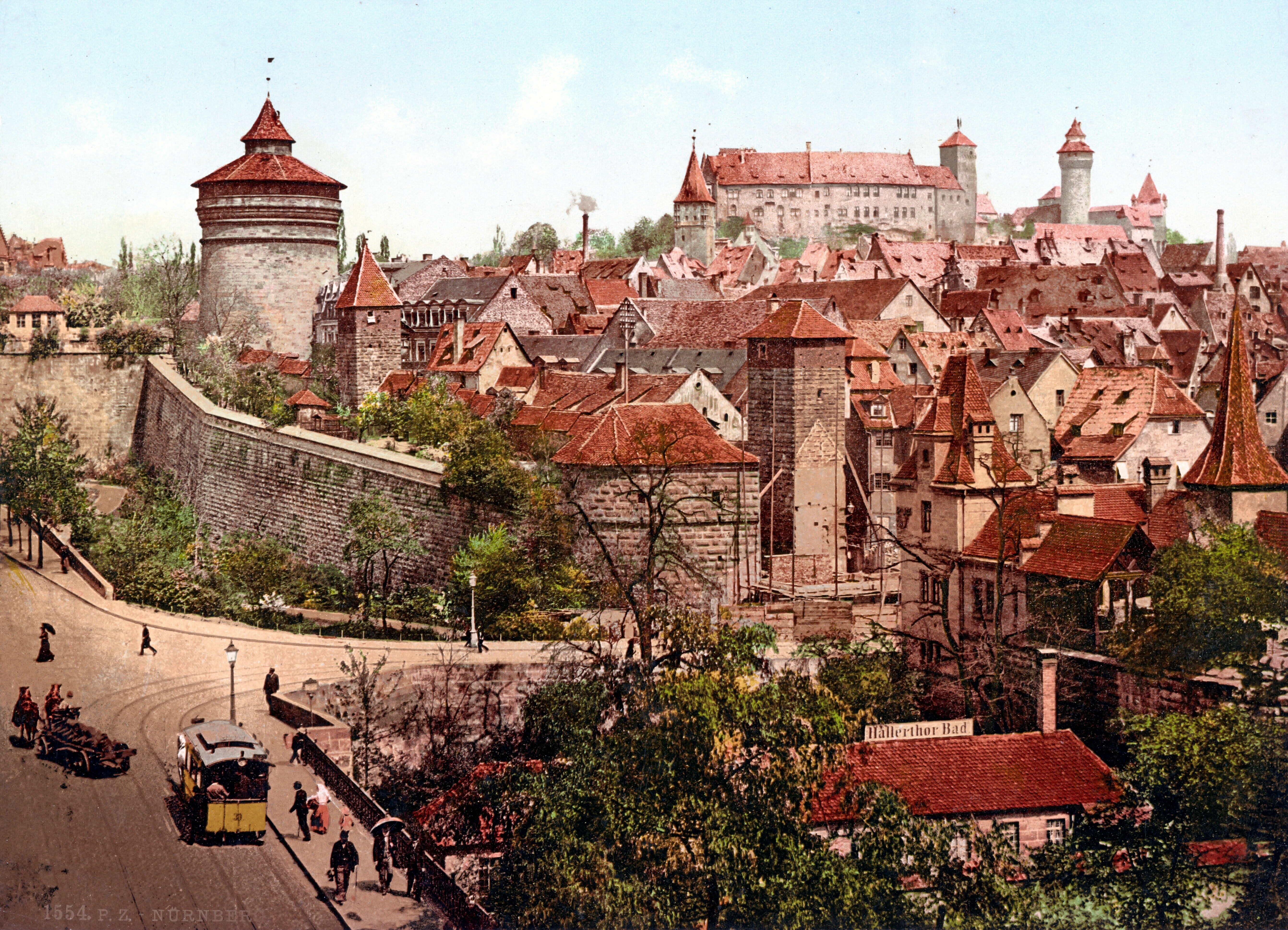 Title: Nürnberg Physical description: 1 print